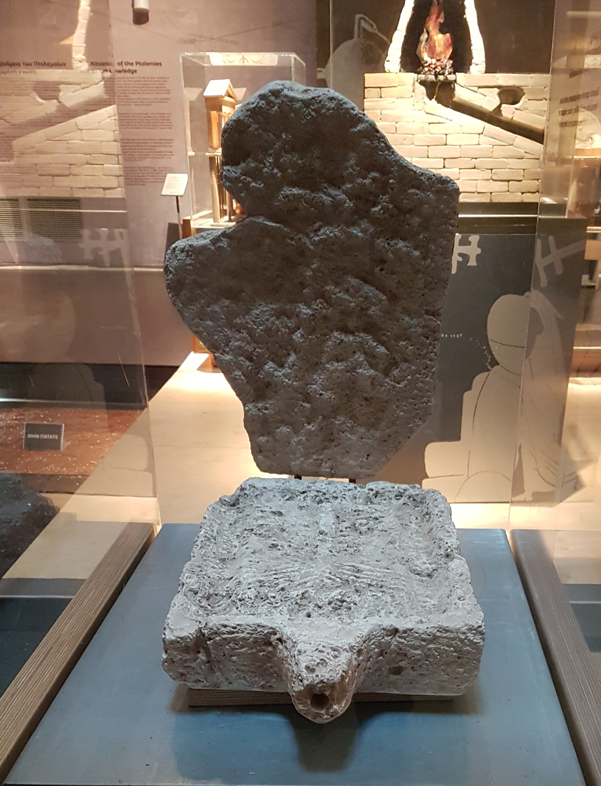 Olive oil extractor/juicer, Dion, Greece, unknown BC date. Reconstructed from original kept at Dion Archaelogical Museum. The 2 plates were being used for crushing the olive stones and extracting the olive oil, which in turn was collected by the lower plate's small holes, and came out through the large front hole. Thessaloniki Technology Museum